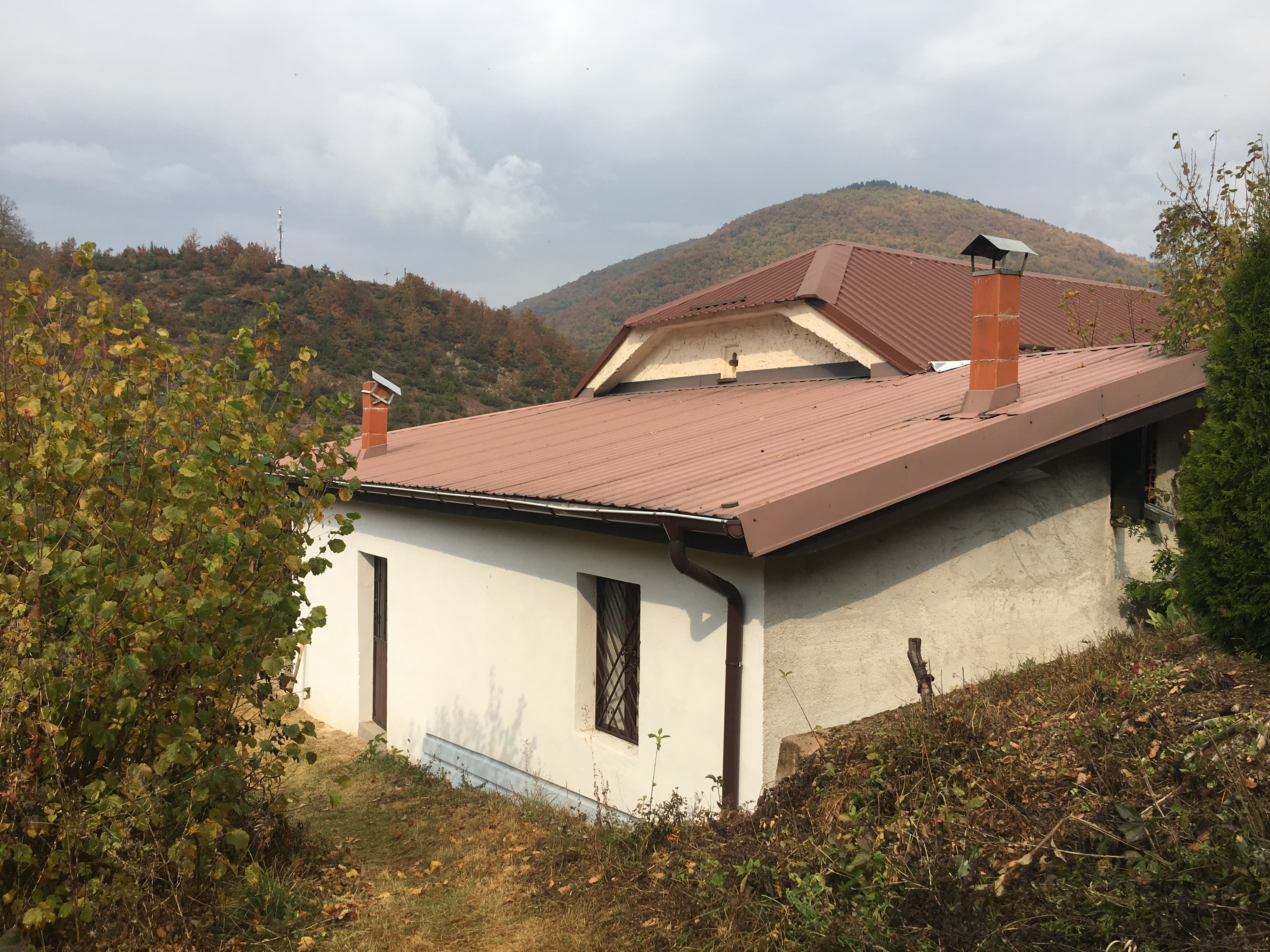 Wikiexpedition to Kopačka